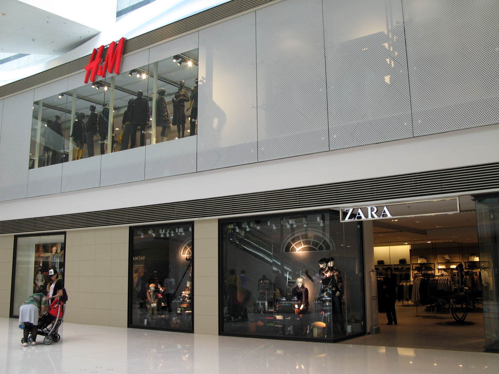 HK Elements H&M and Zara